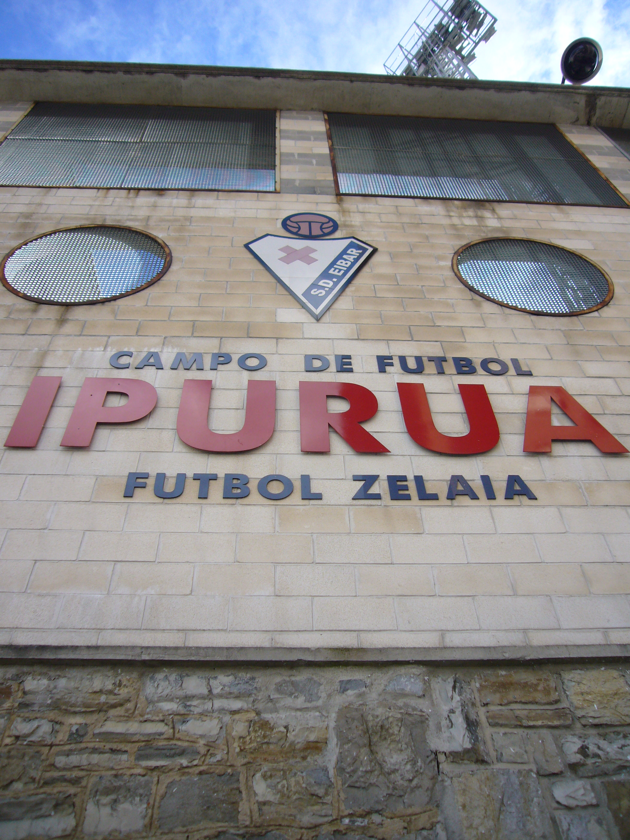 One of the walls of a corner of the Ipurua Stadium, Eibar.